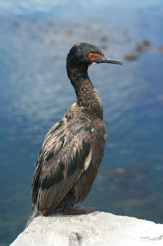 Juvenille Rock Shag (Phalacrocorax magellanicus) in Falkland Islands